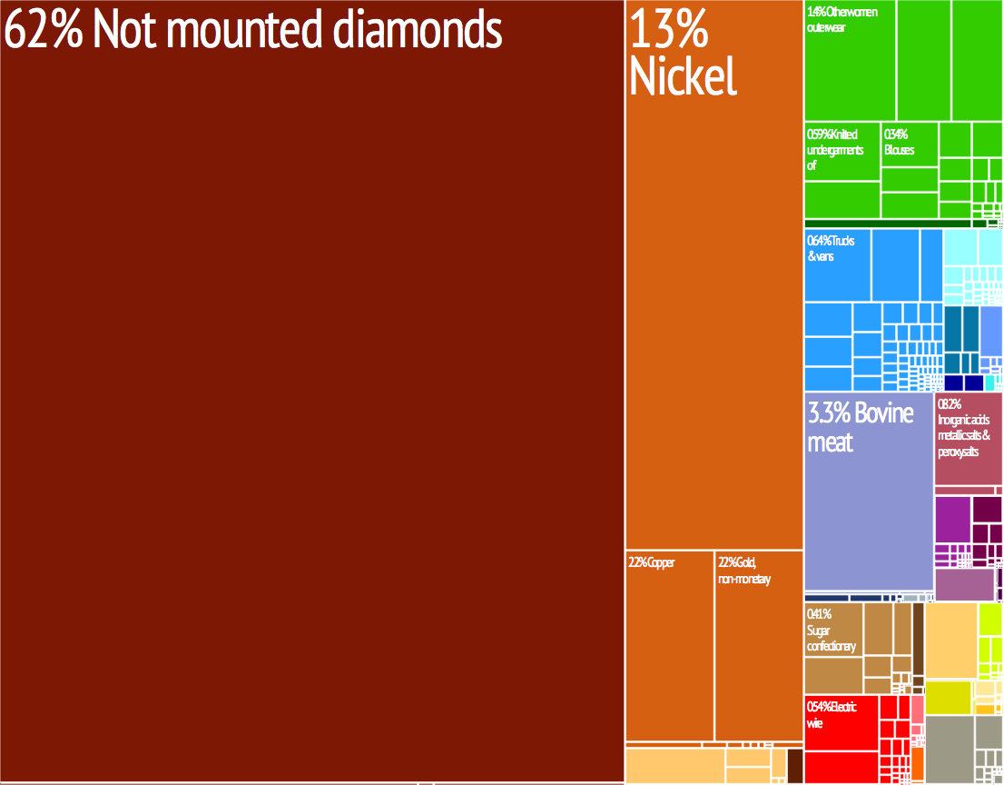 Export Trading Treemap. From MIT/Harvard Atlas of Economic Complexity